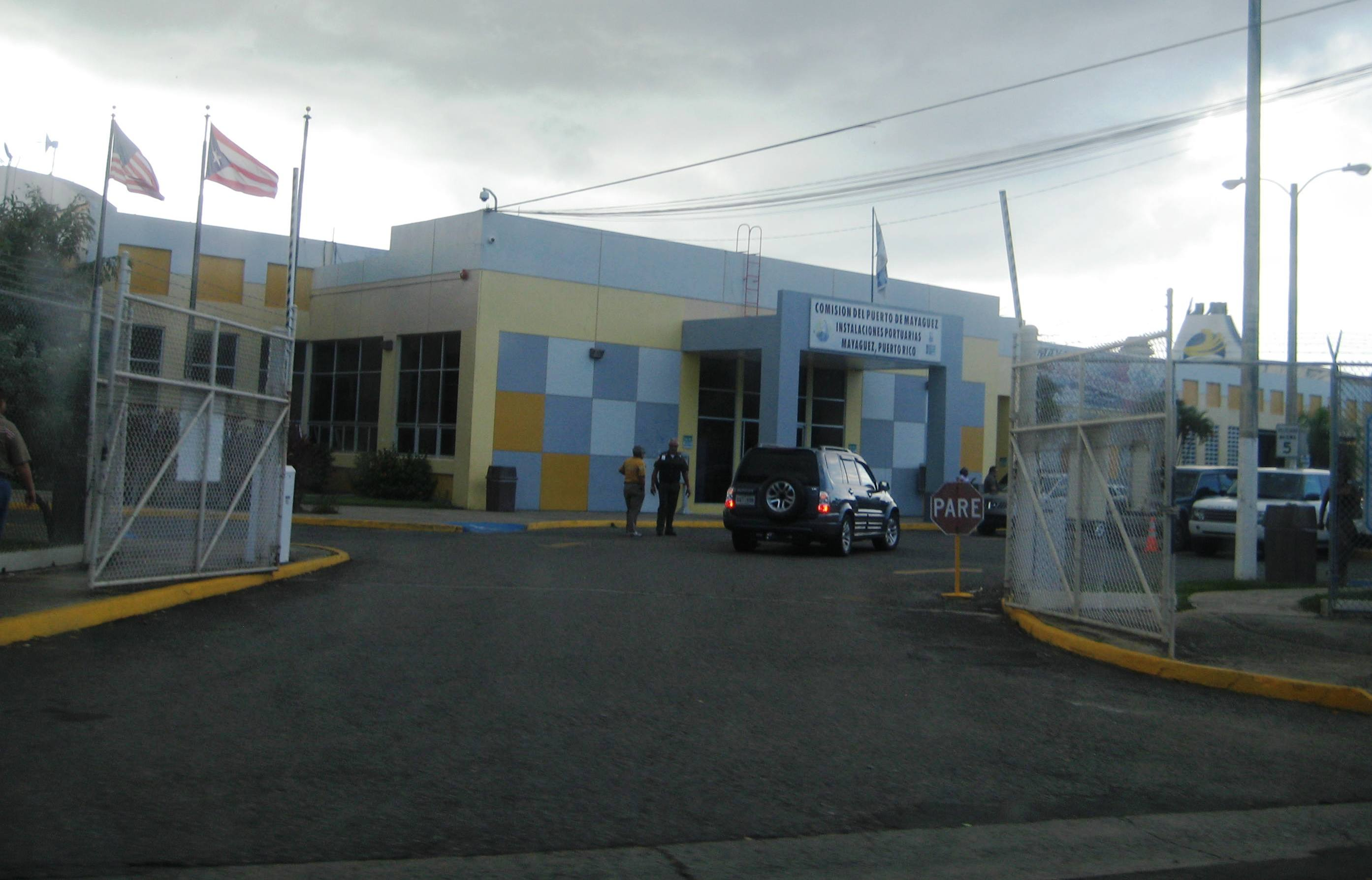 foto taken by me